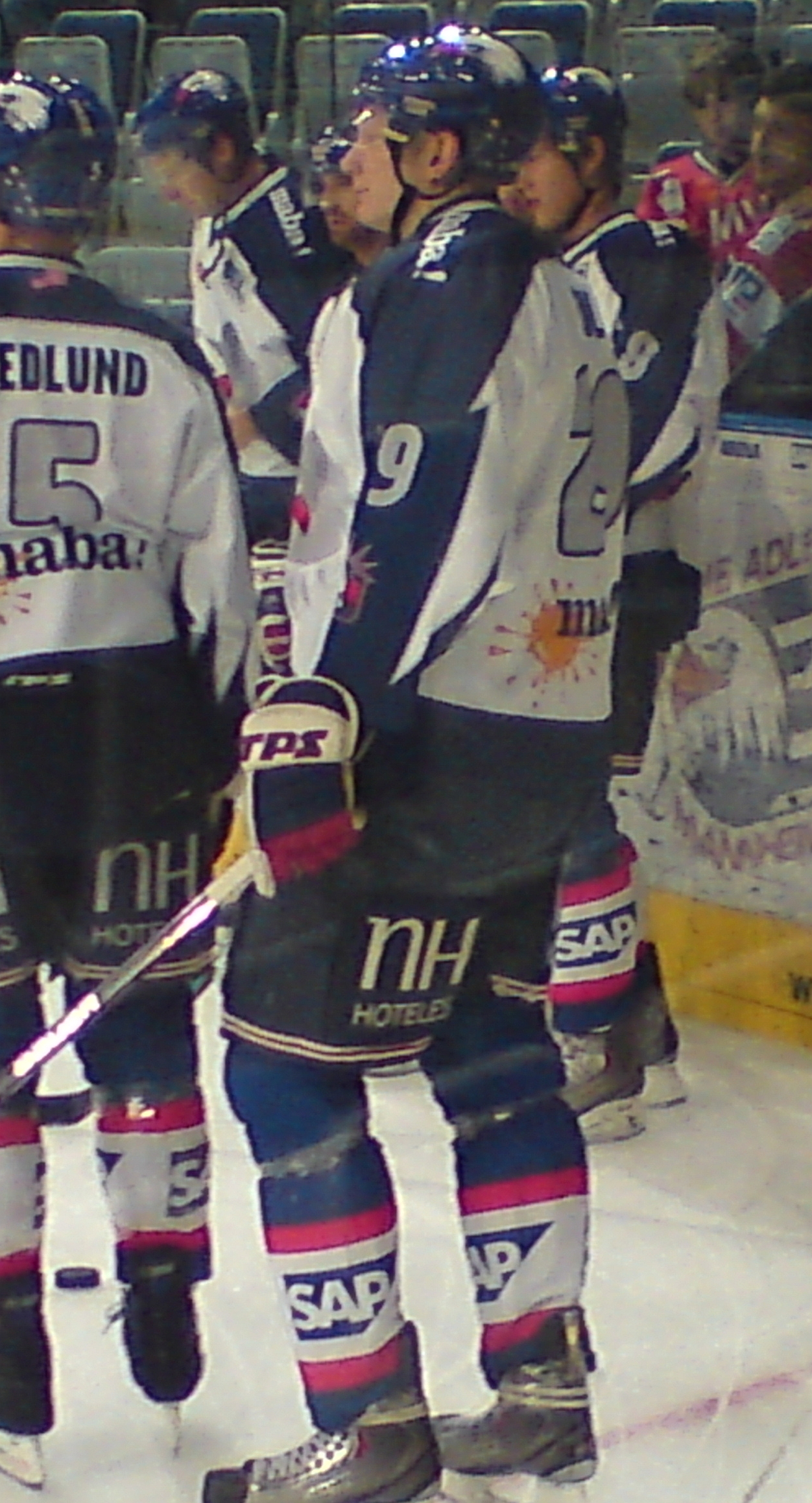 Denis Reul, Ice Hockey Player, Defender, Adler Mannheim